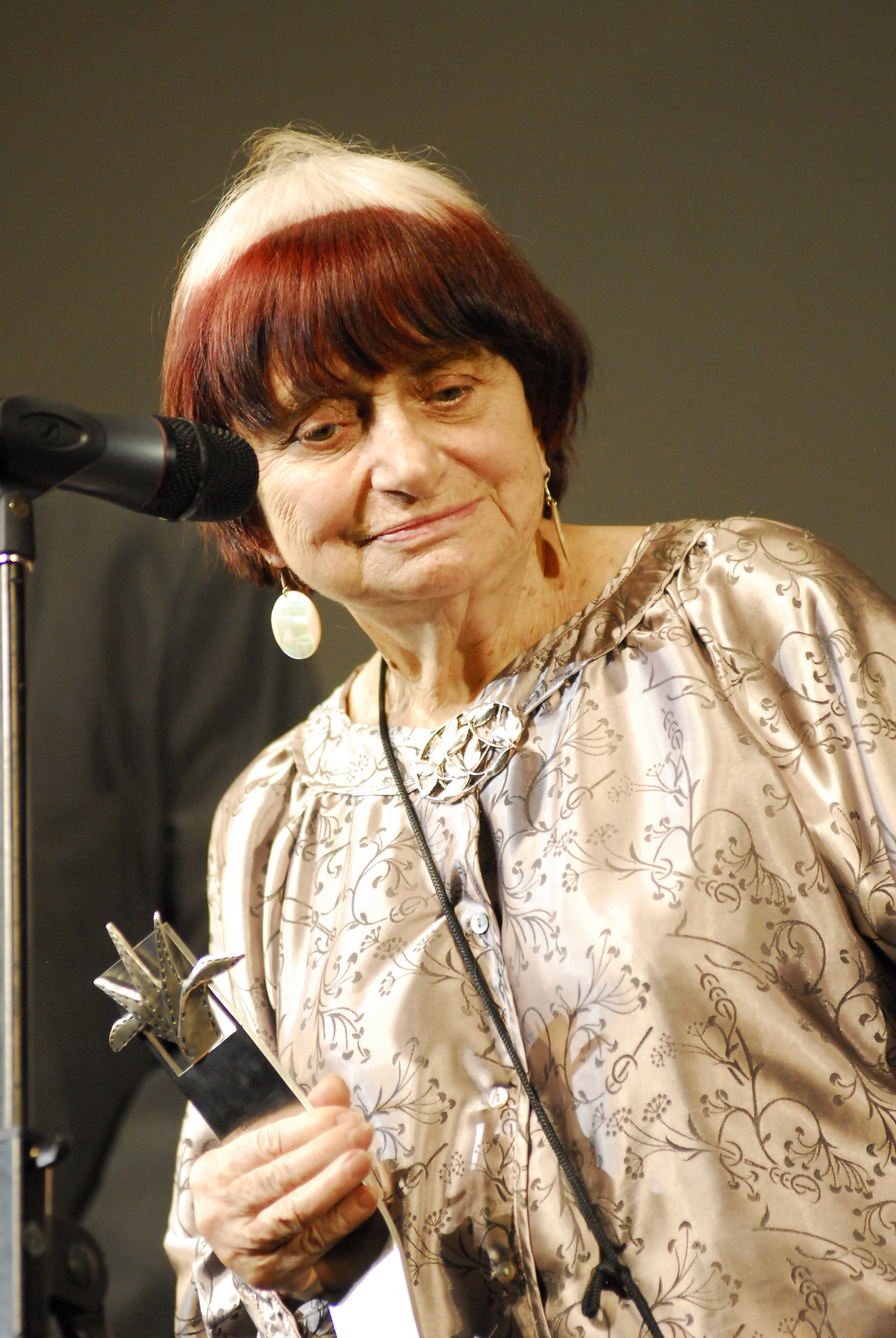 Agnés Vardá, being honoured at the Guadalajara Film Festival